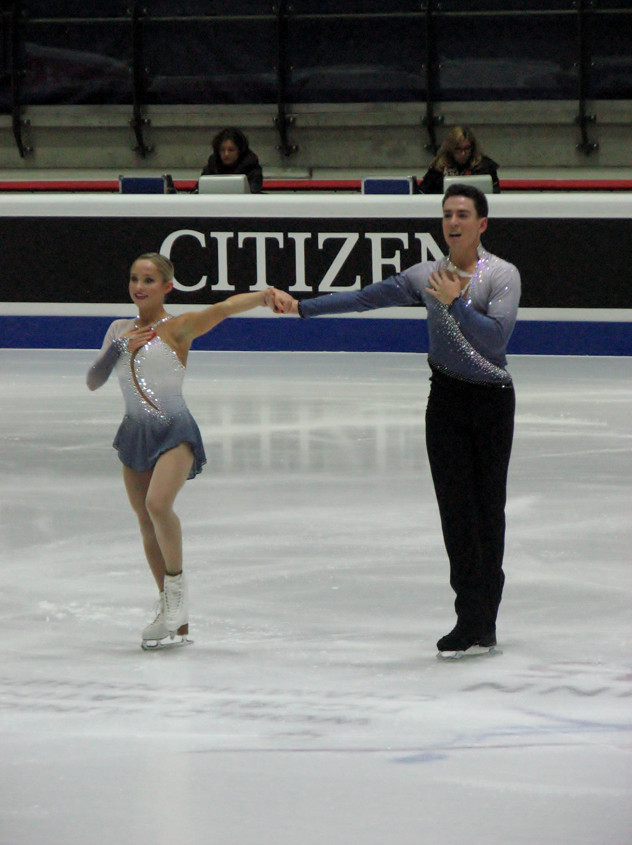 Caitlin Fields & Ernie Utah Stevens representing USA in 2015 World Junior Figure Skating Championships